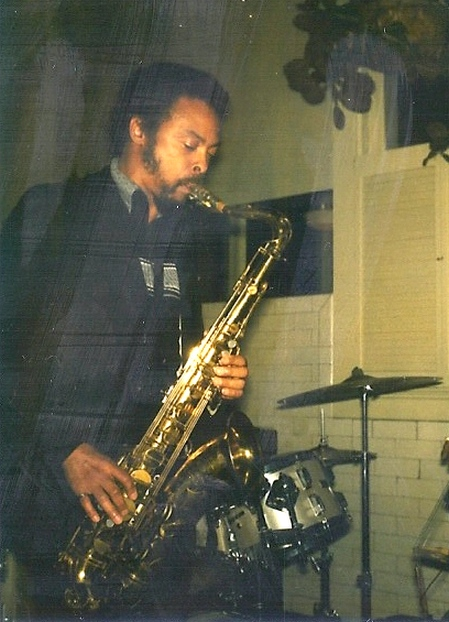 Pat was touring with the Broadway company of Bob Fosse's DANCIN in 1980-1981. He and other show band members would seek local clubs to jam on weekends after the show.